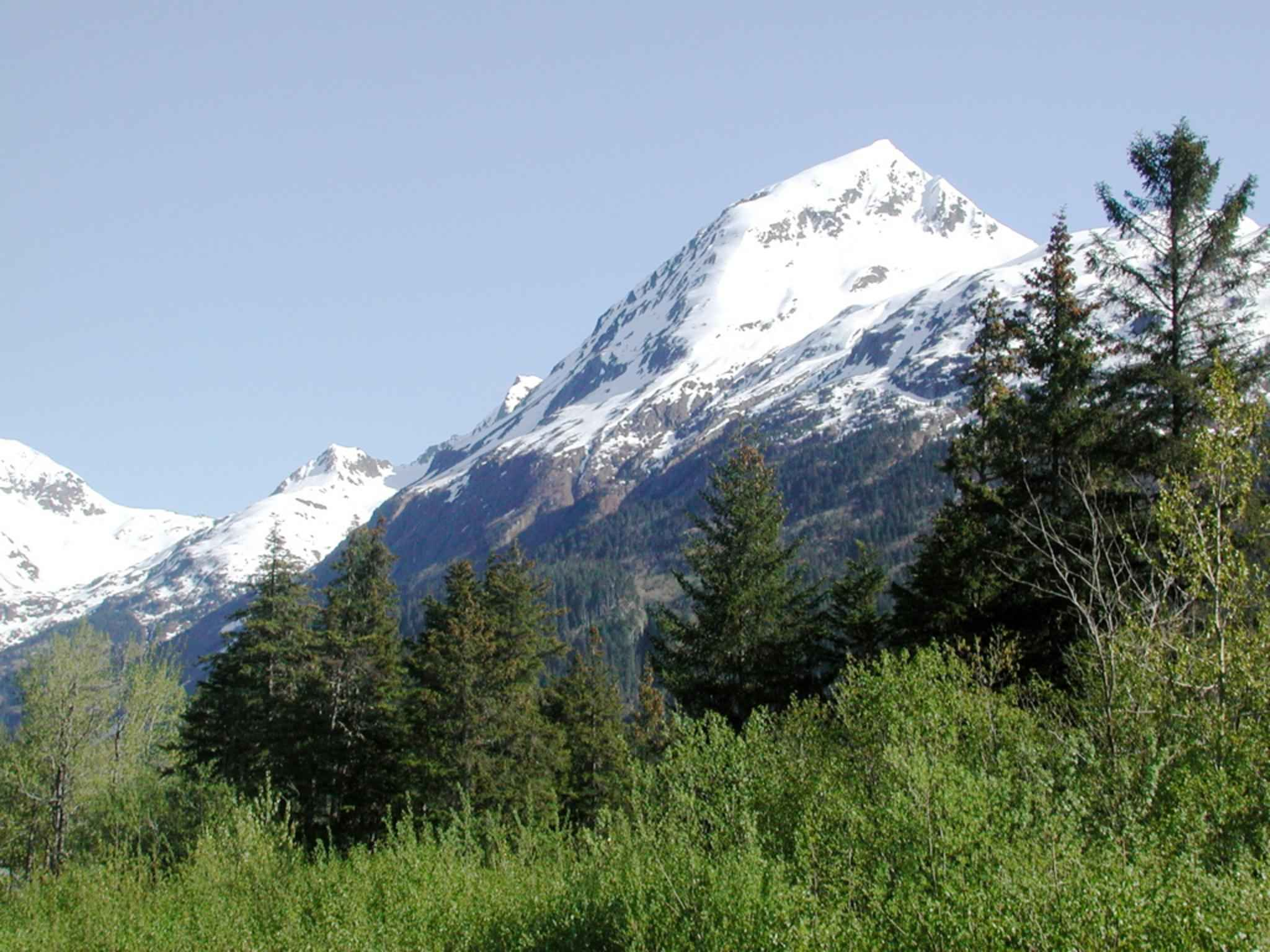 Image title: Kenai fjords national park Image from Public domain images website